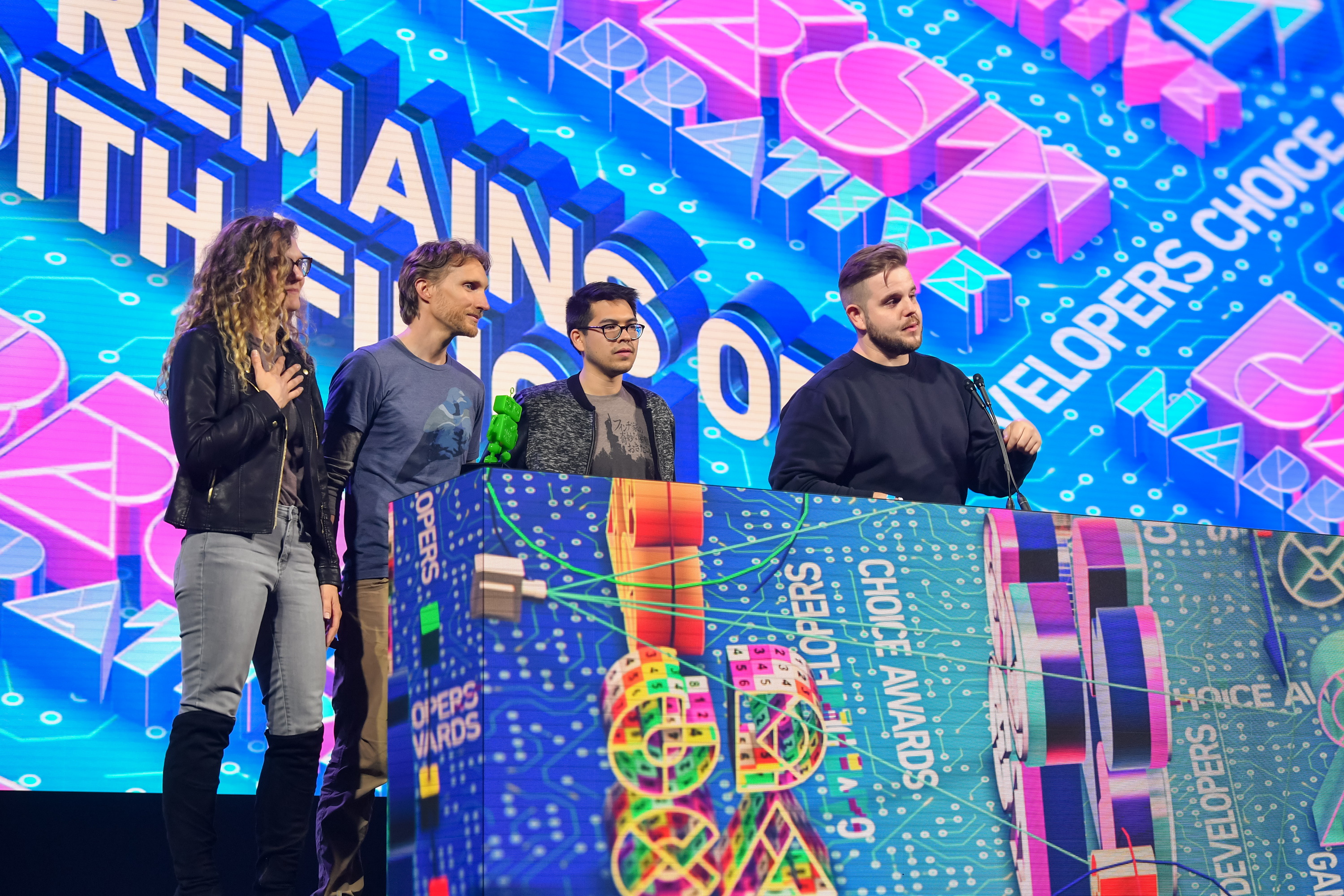 The Giant Sparrow team at the Game Developers Choice Awards 2018, winning the Best Narrative award for "What Remains of Edith Finch"